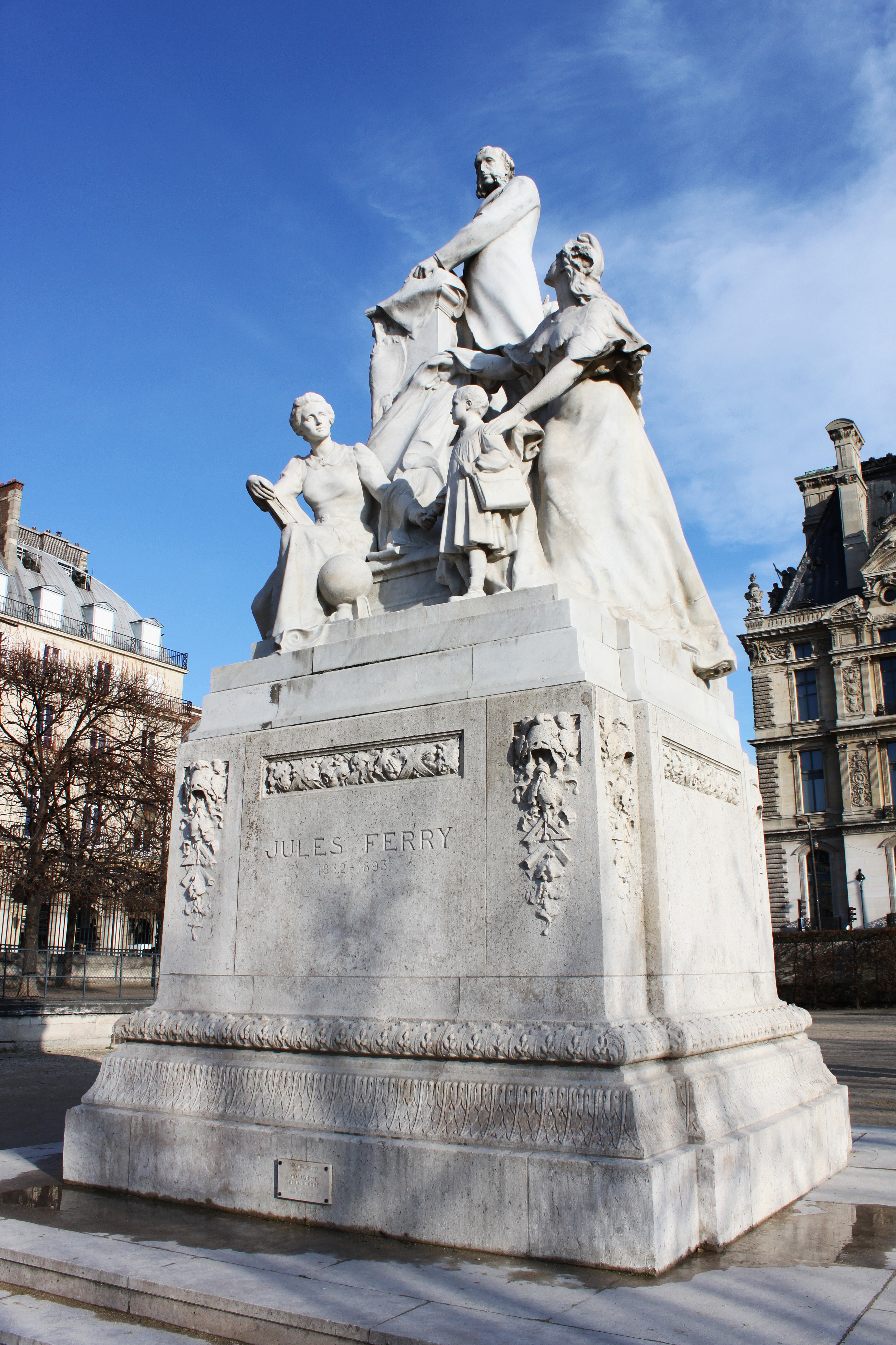 Monument to Jules Ferry, Tuileries Garden, Paris. Work from Gustave Michel (1910).